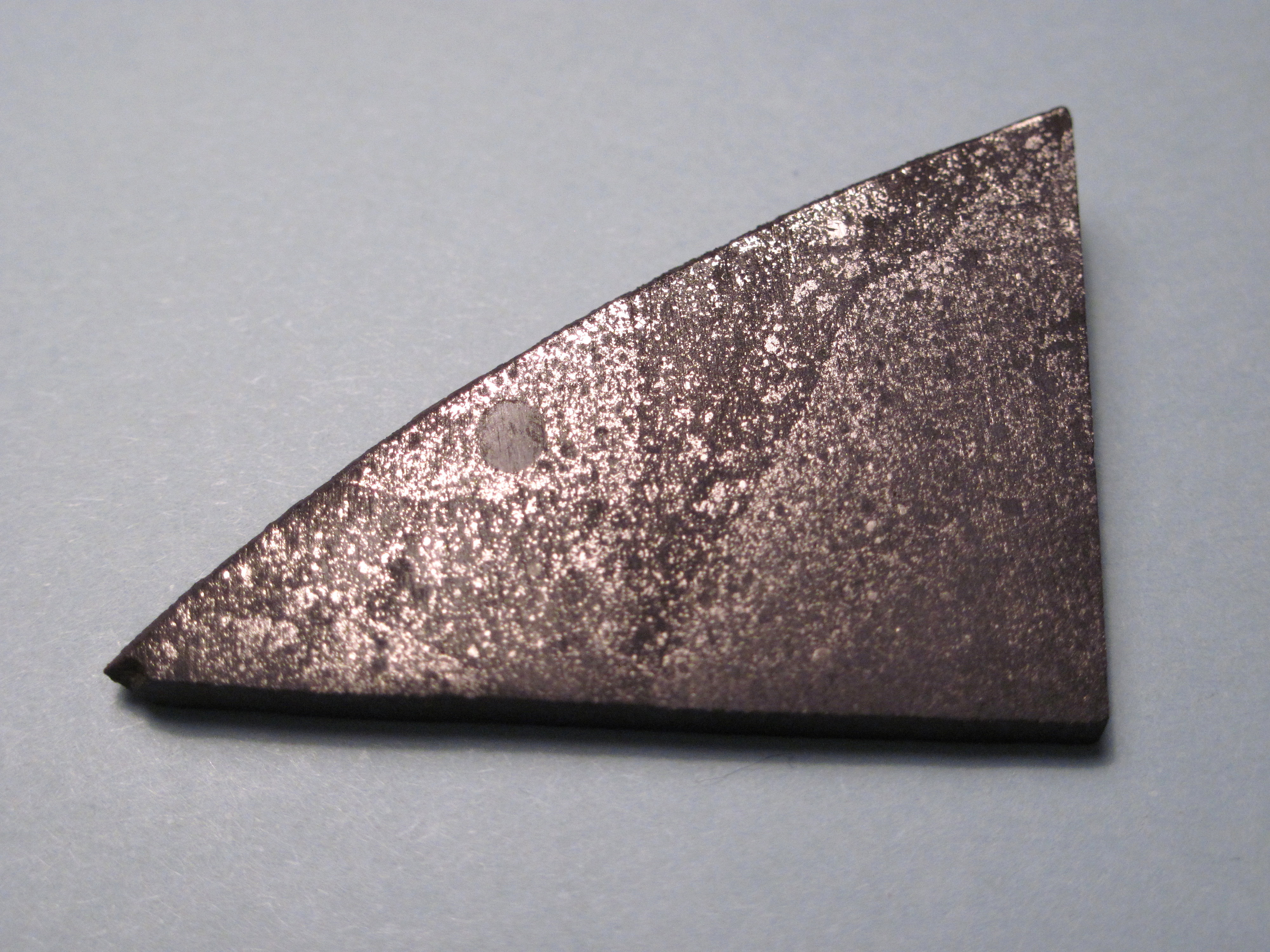 This beautiful and rare brecciated enstatite chondrite (EH4) fell in June of 1952, in Alberta, Canada. According to witnesses, a brilliant fireball lit up the sky north of Edmonton for several seconds and was followed by rumbling sounds. One individual who was at a drive-in movie claimed that the light from the fireball was so bright it obscured the film screen. Several days after the fireball event, a farmer discovered an unusual hole in his wheat field. At the bottom of this hole rested a single large meteorite mass with a weight of ~107 kgs! This was the only Abee mass recovered from the fall. This amazing fusion crusted partial slice was expertly prepared by Russ Kempton of NEMS. It displays the beautiful brecciation that makes Abee unique among the E-chondrites and it also contains a large chondrule which is not common in Abee.